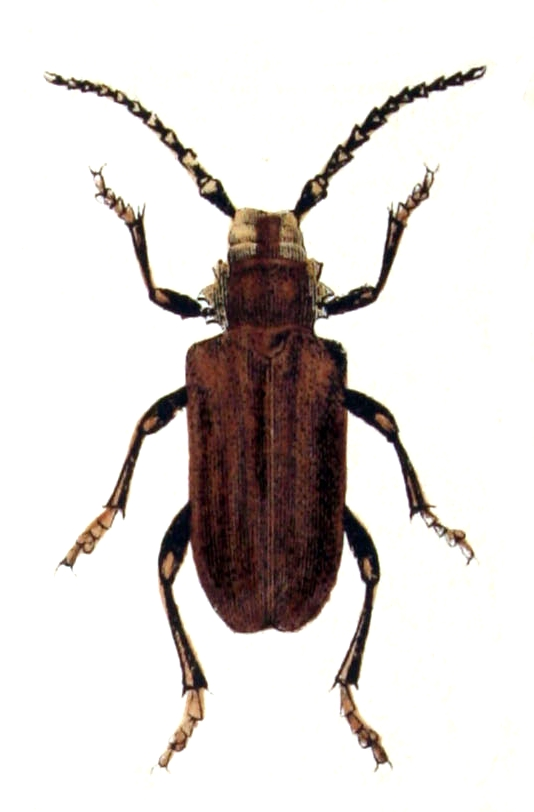 Prionus coriarius, from Calwer's Käferbuch, Table 35, Picture 5. Taxonomy was updated to 2008, using mostly the sites Fauna Europaea and BioLib. Please contact Sarefo if the determination is wrong!